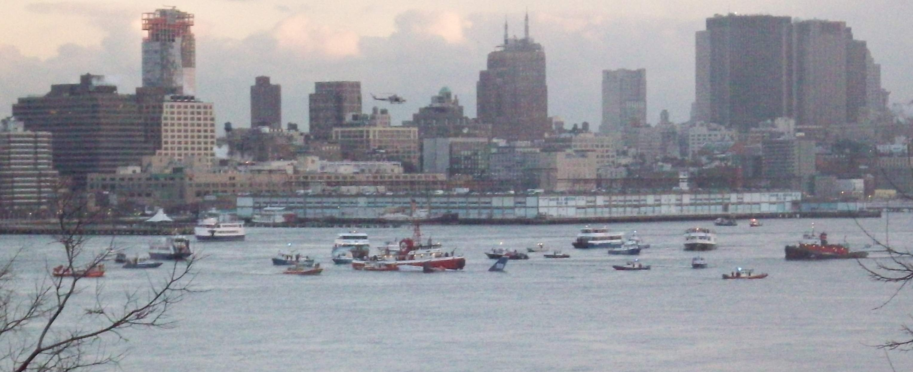 Picture of recovery effort for US Airways Flight 1549 in the Hudson River, taken from the New Jersey side, at Stevens Institute of Technology